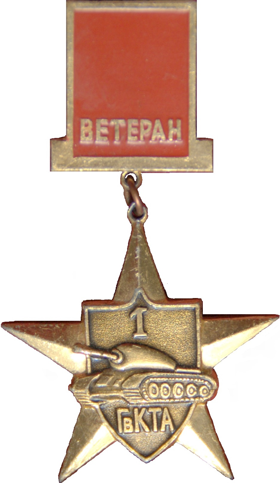 Unit patch to «Veterans of the 1st Guards Tank Army».